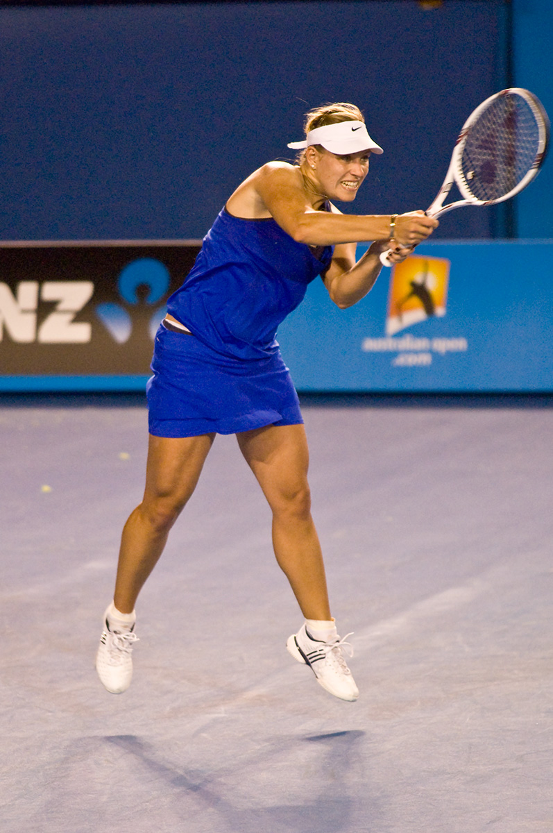 Angelique Kerber at the 2010 Australian Open